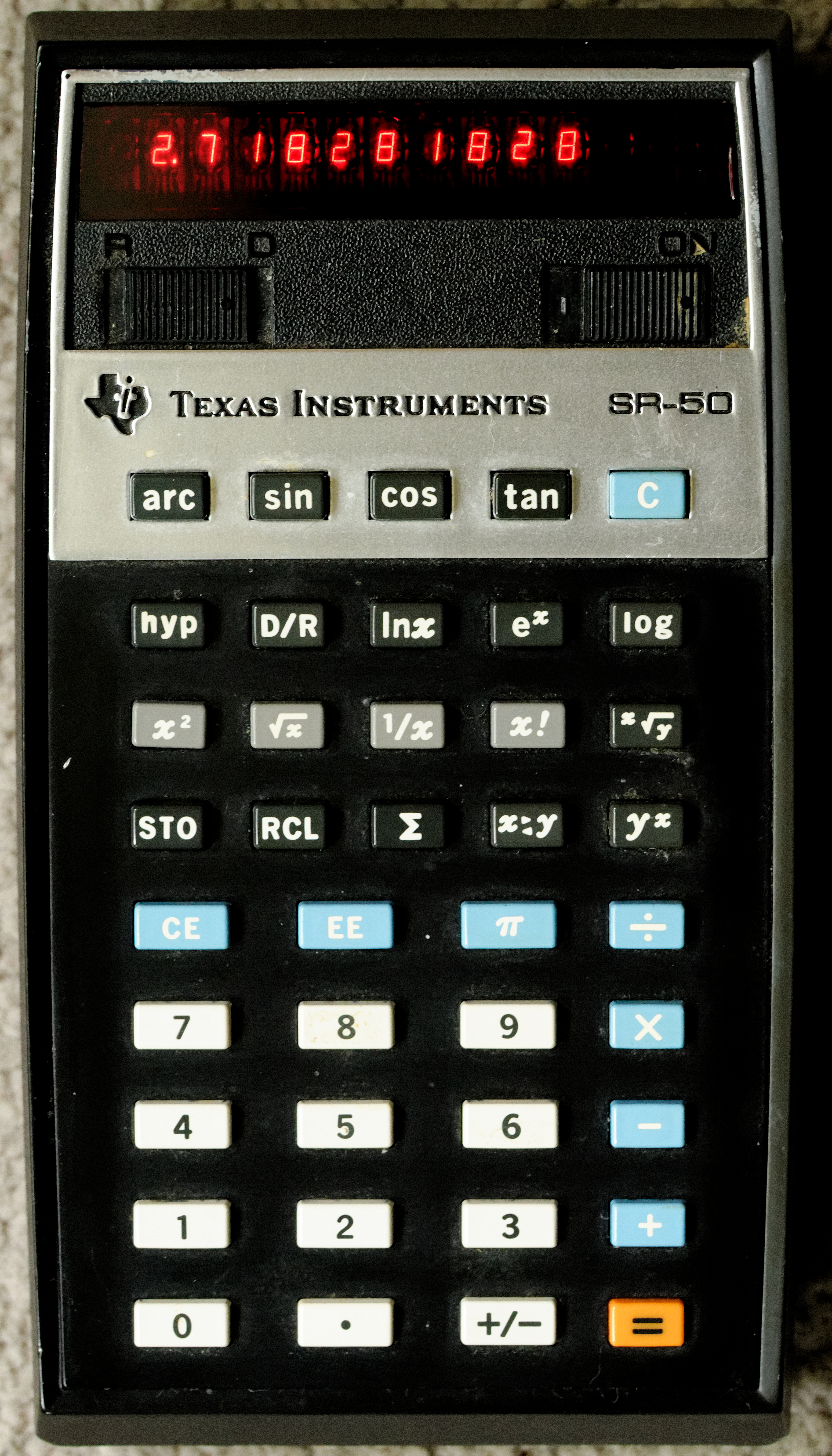 Texas Instruments SR-50